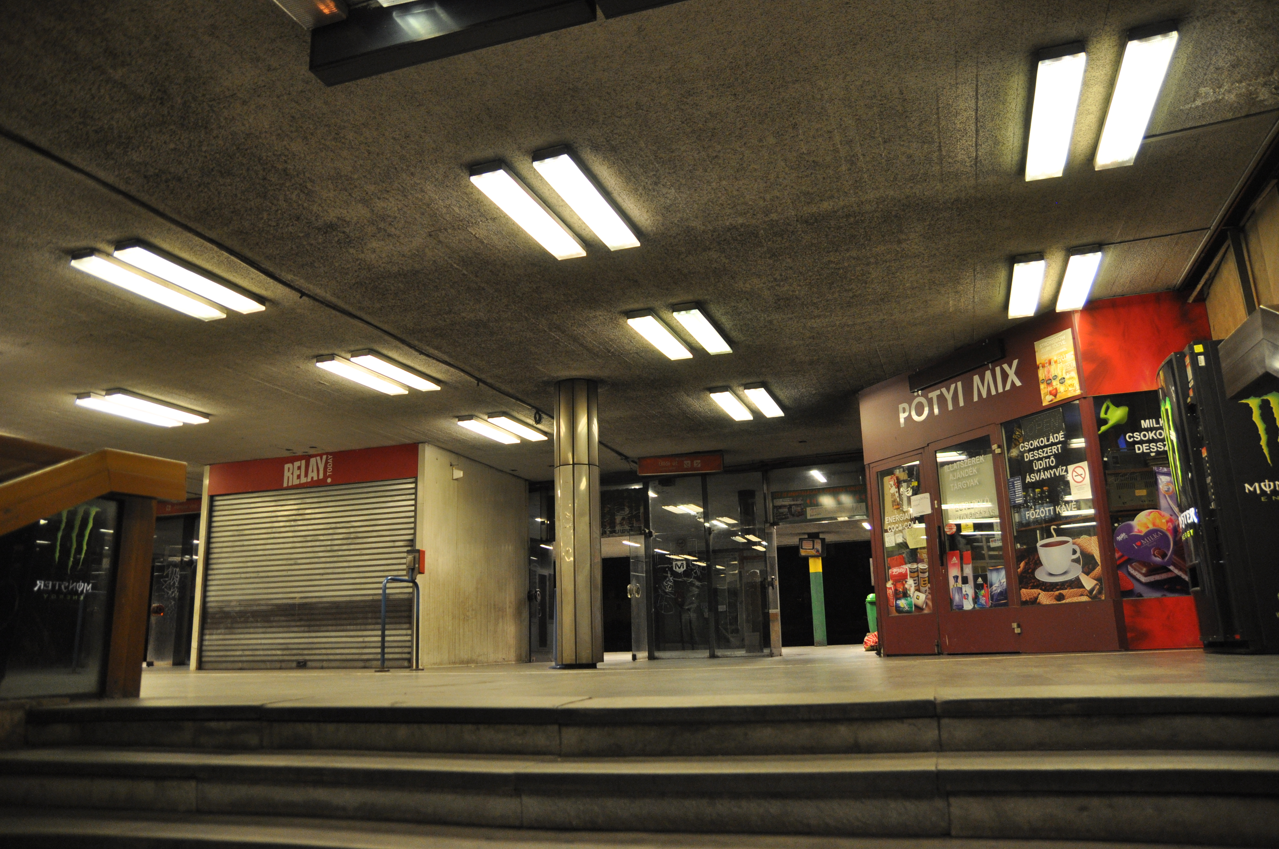 Budapest, metró 3, Pöttyös utca